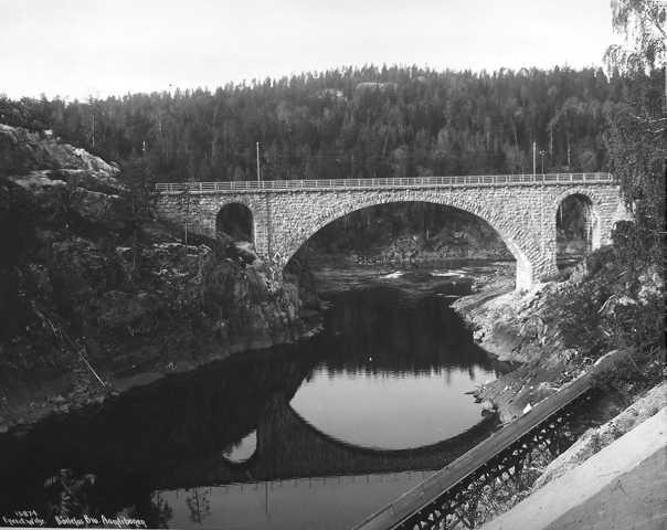 Bøilefos Bridge on the Arendal Line in Norway